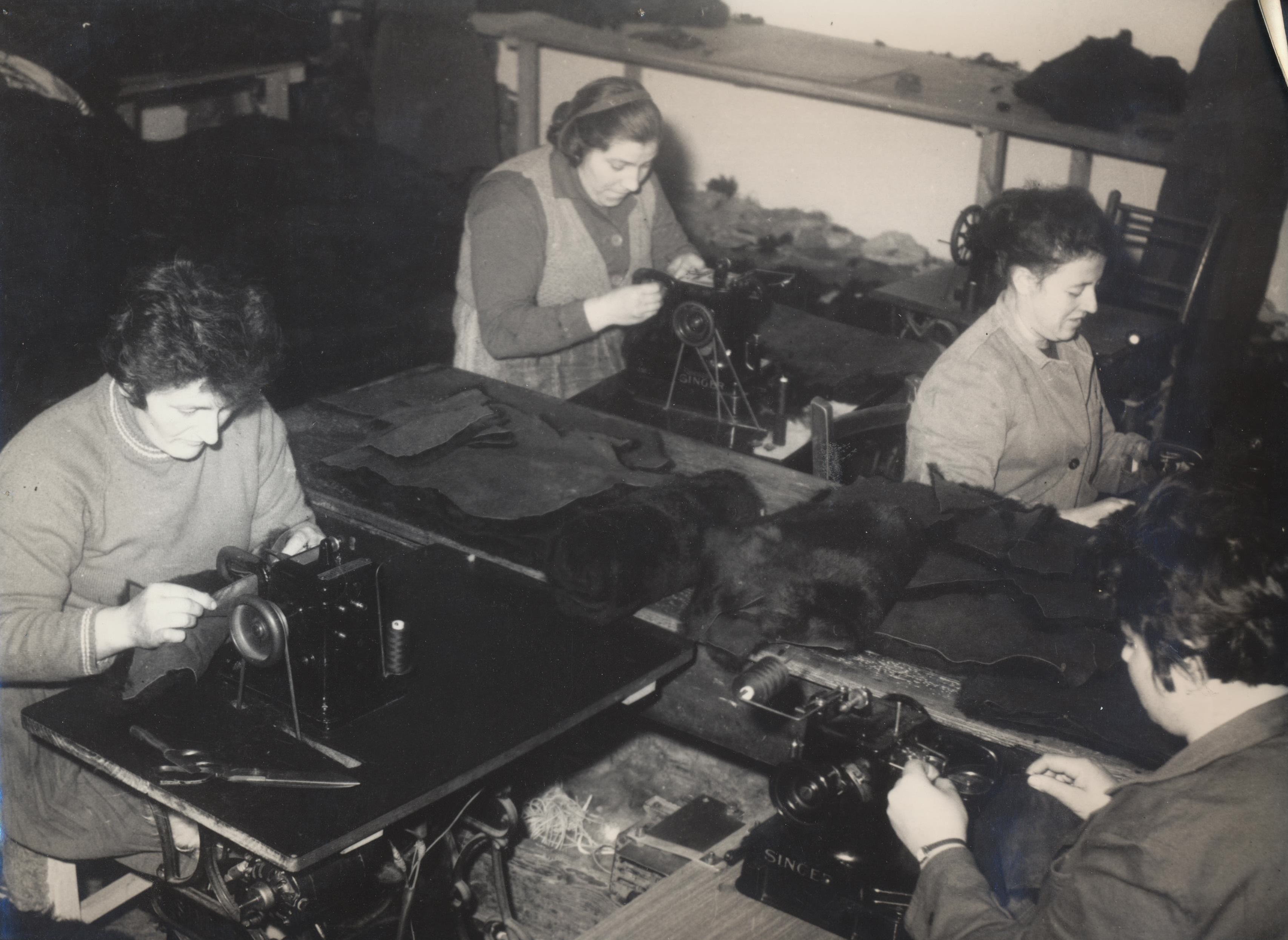 Confectionery of fur in 1963.